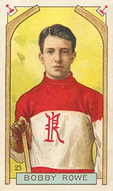 1910–11 Imperial Tobacco Co. hockey card #23 of Renfrew player Bobby Rowe